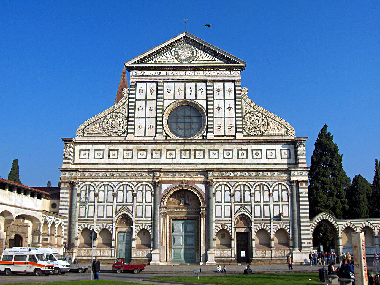 Santa Maria Novella, a church in Florence, Italy Own photo - photo made by Georges Jansoone on 12 October 2005